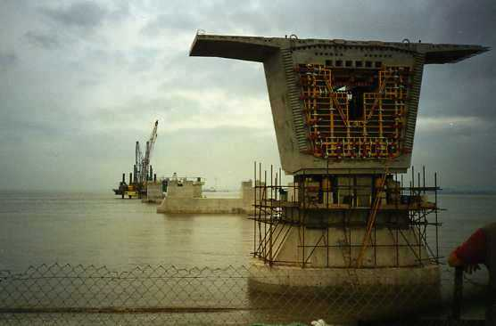 Building the Second Severn Crossing (1993), England/Wales border.